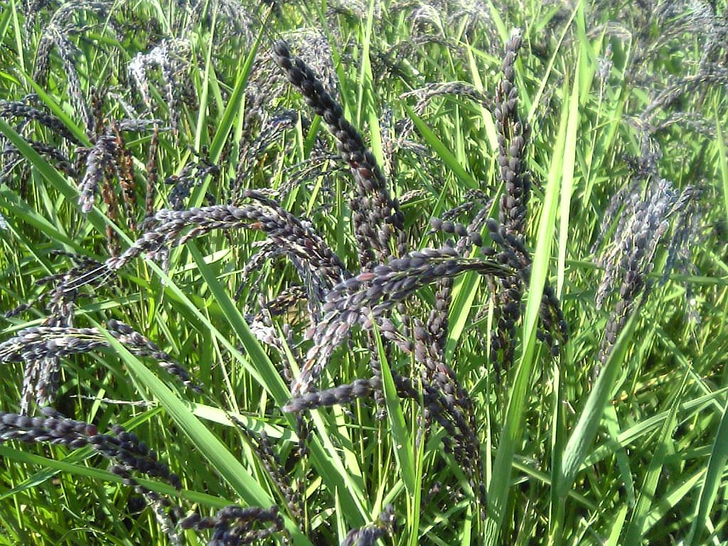 A kind of the ancient rice, the rice ear of the black rice (黒米、くろまい) The scientific name: Oryza sativa subsp.javanica). Before harvesting Inada of the maturity term. Black rice and Red rice (赤米, あかまい, Oryzasativasubsp.japonica) are an opportunity to use as offering God's food together in the case of God thing are abundant in. It originates in Anthozyan which is a kind of Polyphenol, and the pigment which looks black is very dark purple. See also. ear of rice, Paddy field